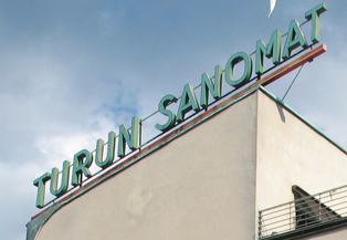 Turun Sanomat building by Finnish architect Alvar Aalto, in Kauppiaskatu, Turku, Finland.